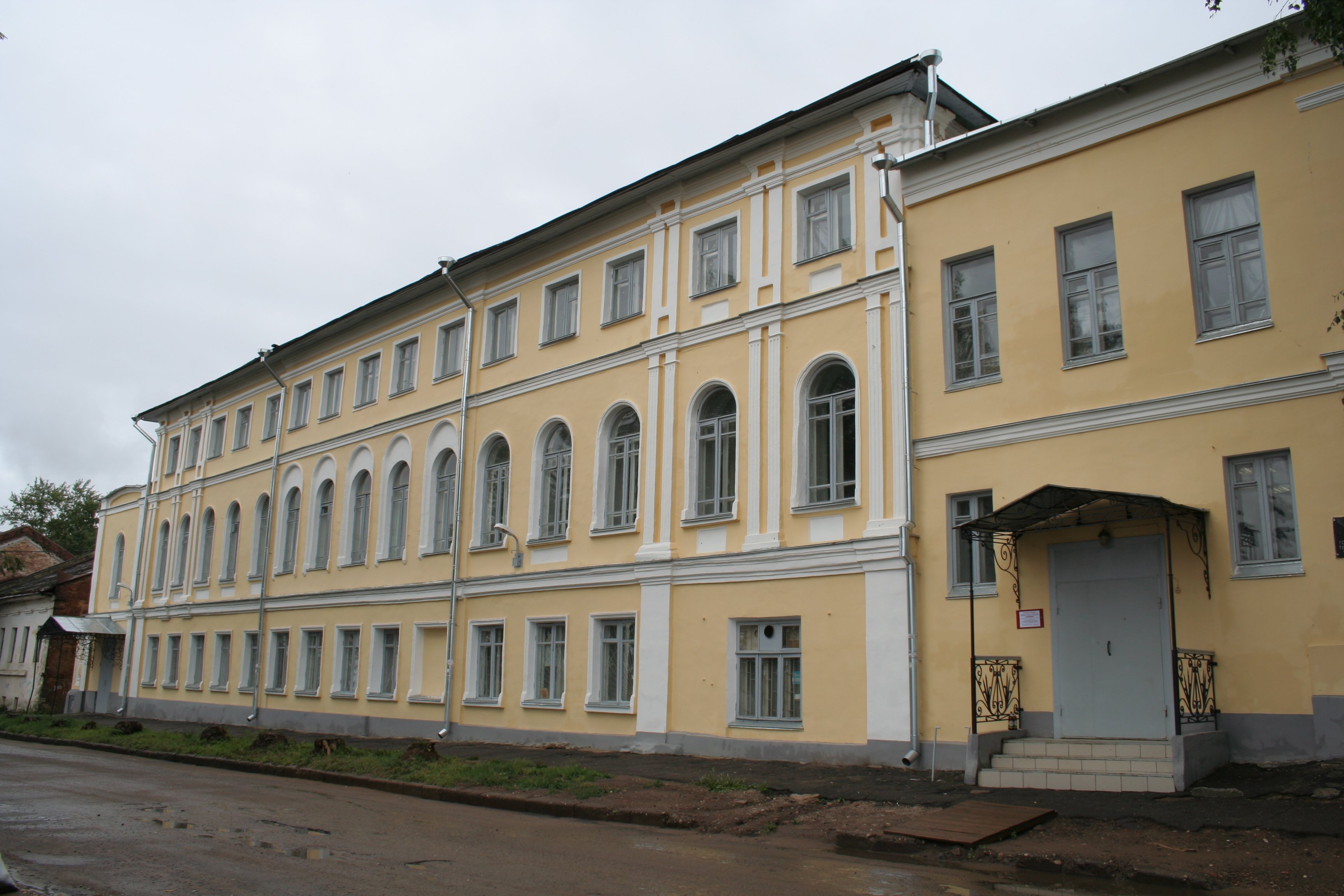 One of the buildings of the Technological University in Kostroma, Russia.